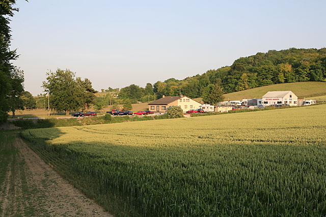 Haynes Garage, nr Lopcombe Corner on A30. The A30 runs along the left edge of this photo, and the garage is set back in a completely isolated position in the countryside. The hill behind is Ashley's Copse and has a hillfort on it.